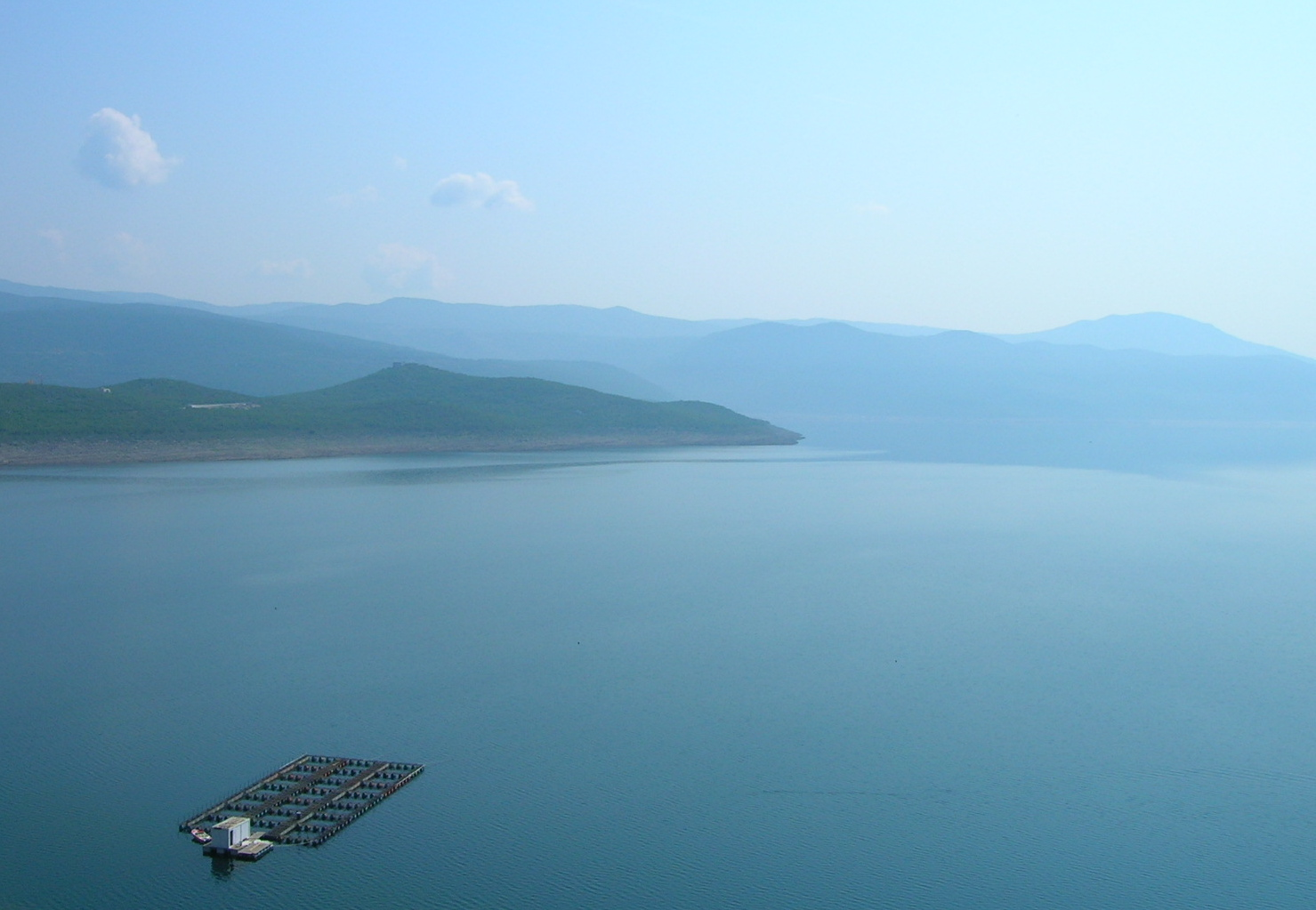 View of the lake in Bileca, Serb Republic, Bosnia and Herzegovina. created 2005-09-01 Bileca Lake (Bilecko Jezero) in the Serb Republic (Republika Sprska), Bosnia and Herzegovina (Bosna i Hercegovina). View from Motel Vidikovac above the lake. Photographer: Kevin Frost